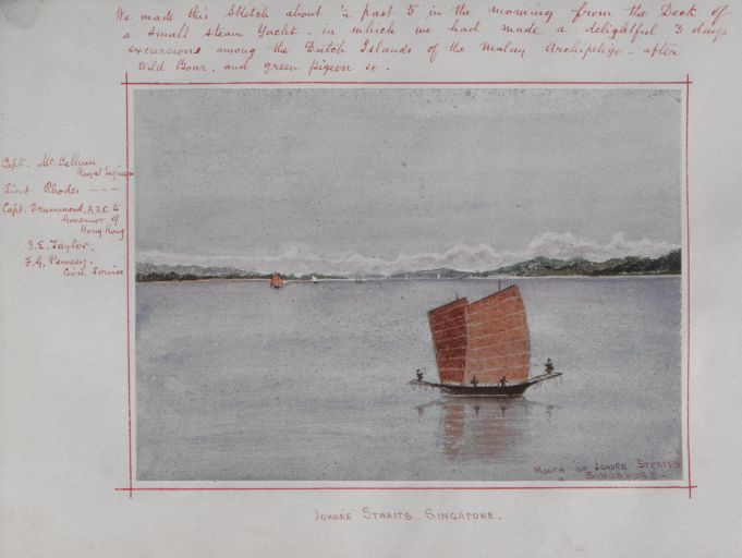 Colour sketch of a view across the Straits of Johor in 1879. Note the two Chinese junks that are featured in the picture; one in the foreground, and the other in the background.